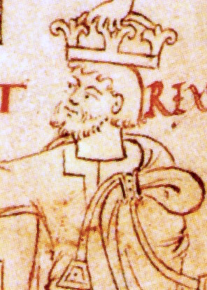 Canute, c.995-1035. Illuminated manuscript, Liber Vitae, 1031, Stowe Ms 944, folio 6, The British Library. (cropped version)